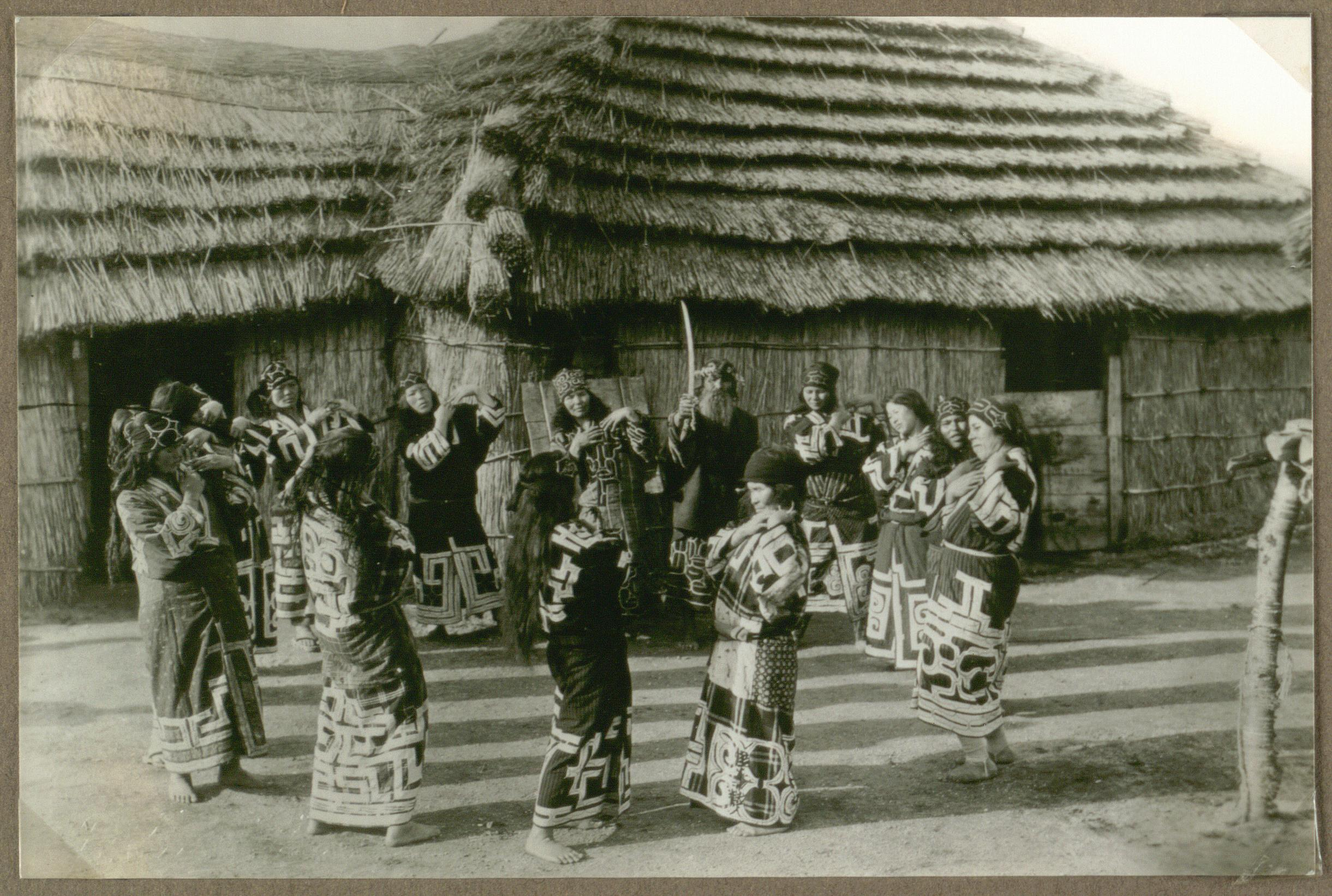 Japan – Ainu, Hokkaido. Photographer: S. Kinoshita No. es_b_00523